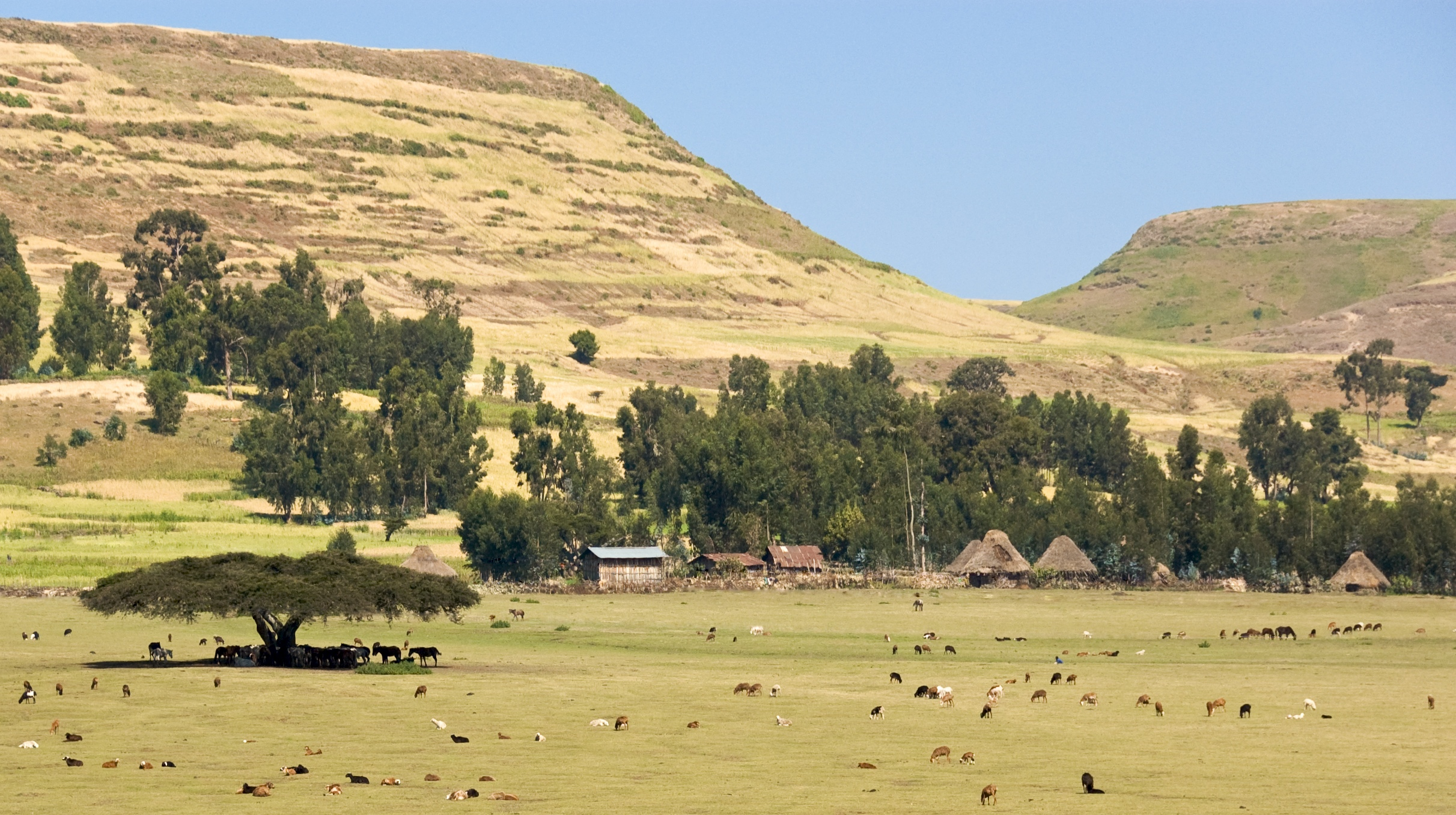 This was a stunningly beautiful landscape, with its houses, scattered livestock and the spreading acacia.